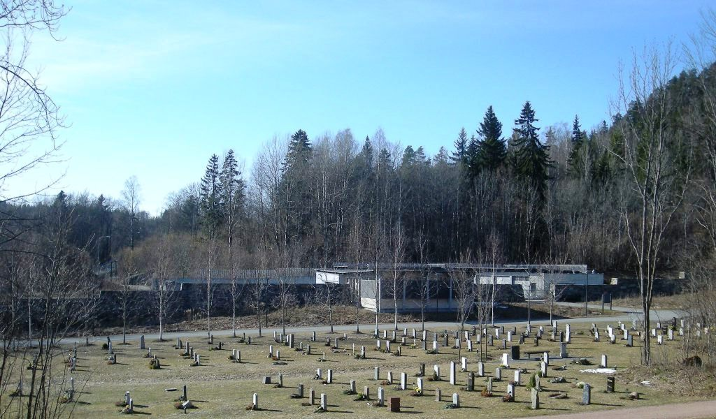 Steinsskogen cemetery, Bærum